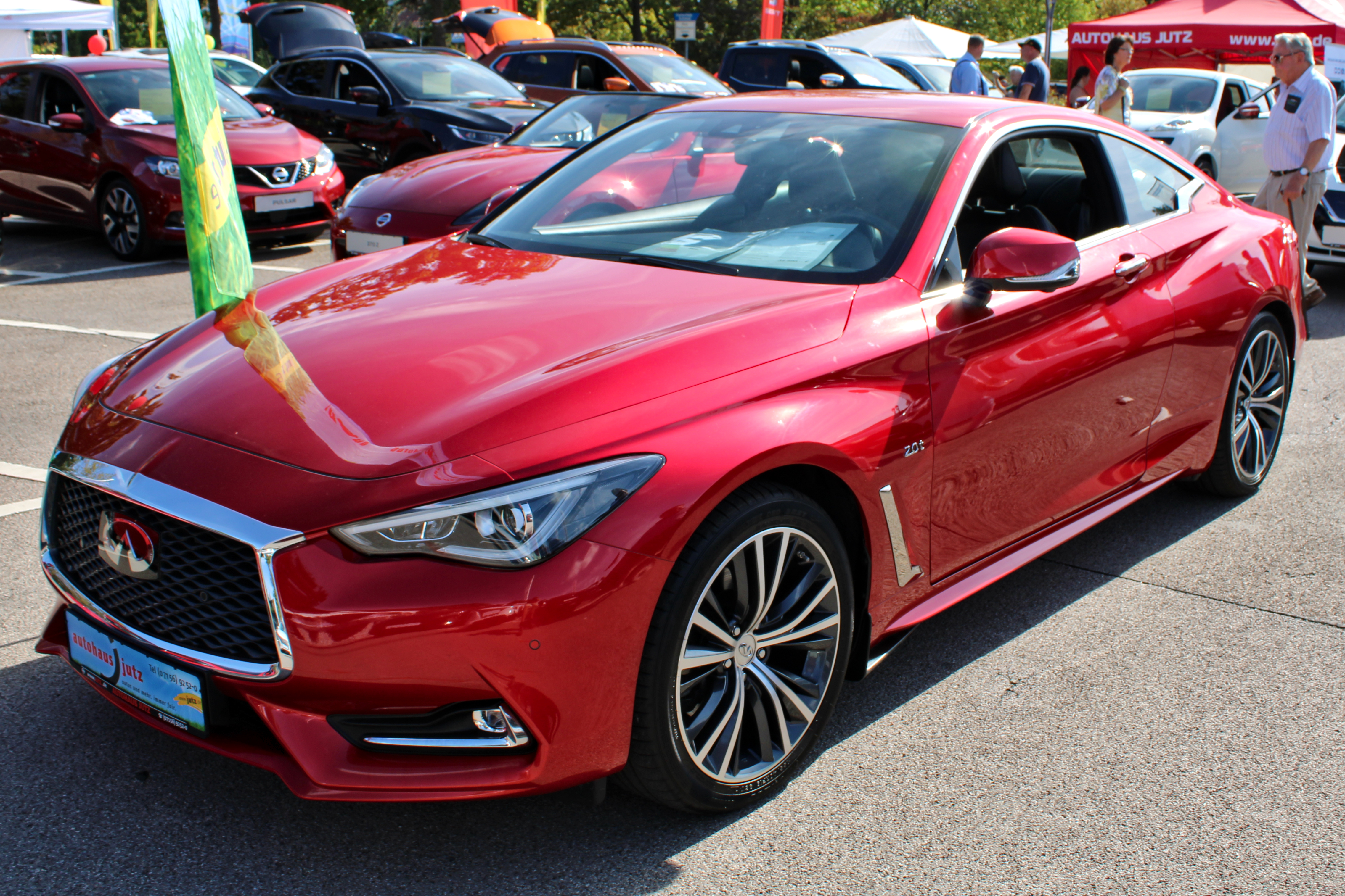 Infiniti Q60 (V37)